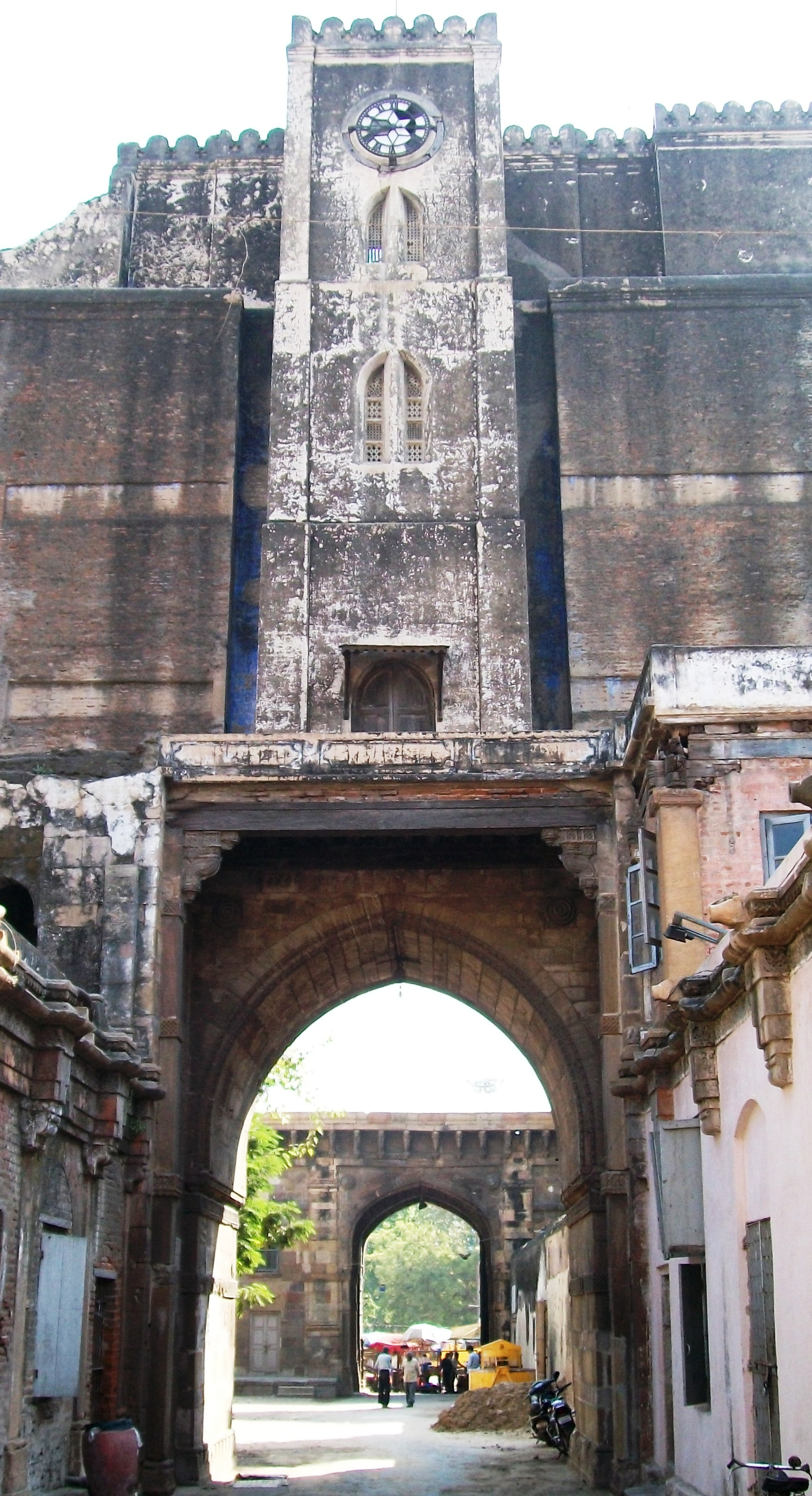 Bhadra fort situated at Ahmedabad, India. Clock tower